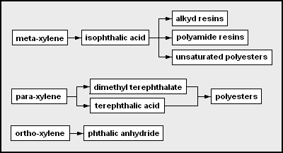 Diagram of the chemicals produced from the meta-, para- and ortho-xylenes.